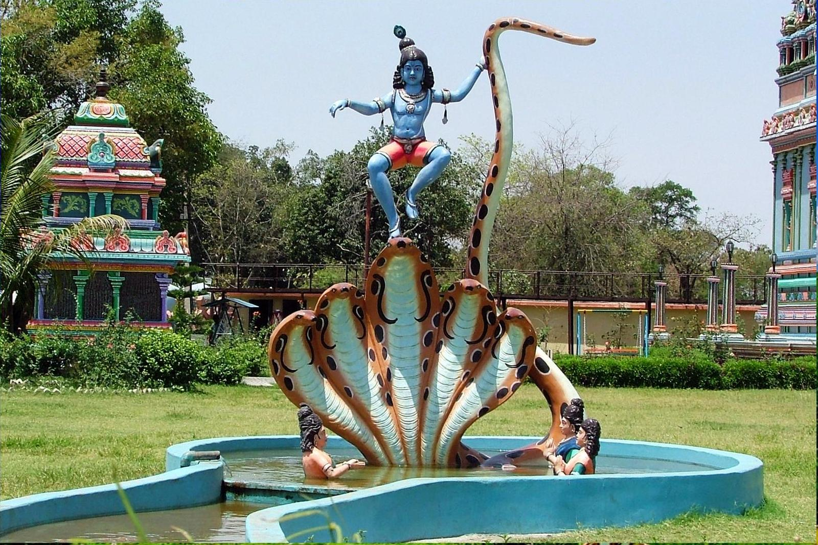 lord krishna's statue at mandir.